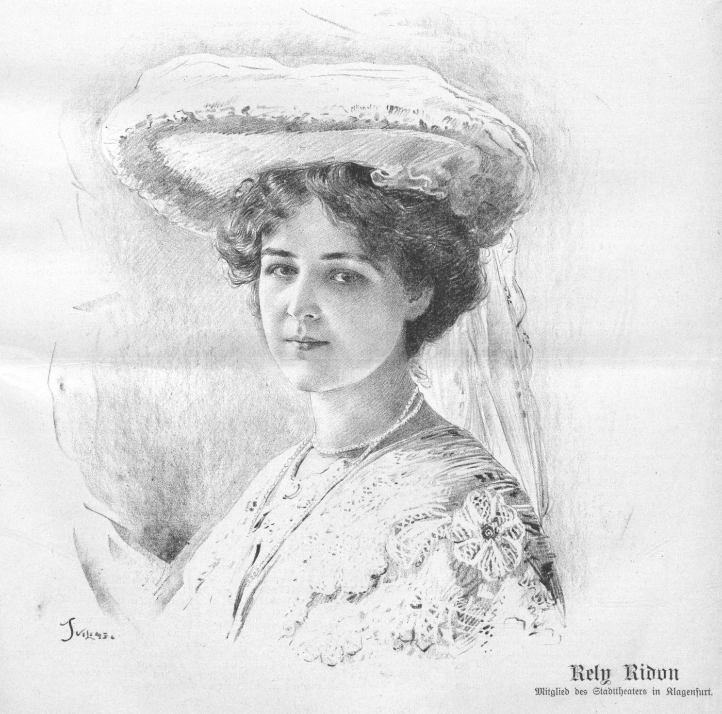 Portrait of Nelly "Rely" Riddon, Austrian actress.